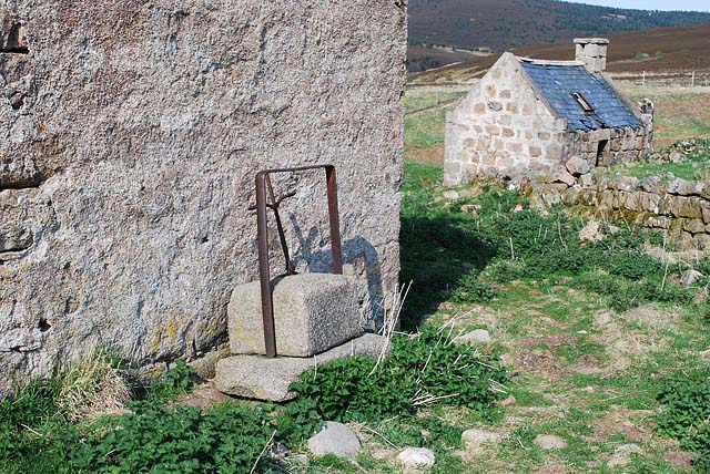 Auchabrack - the press The farm's press is in a state of disrepair. Once it will have been used for making cheese.